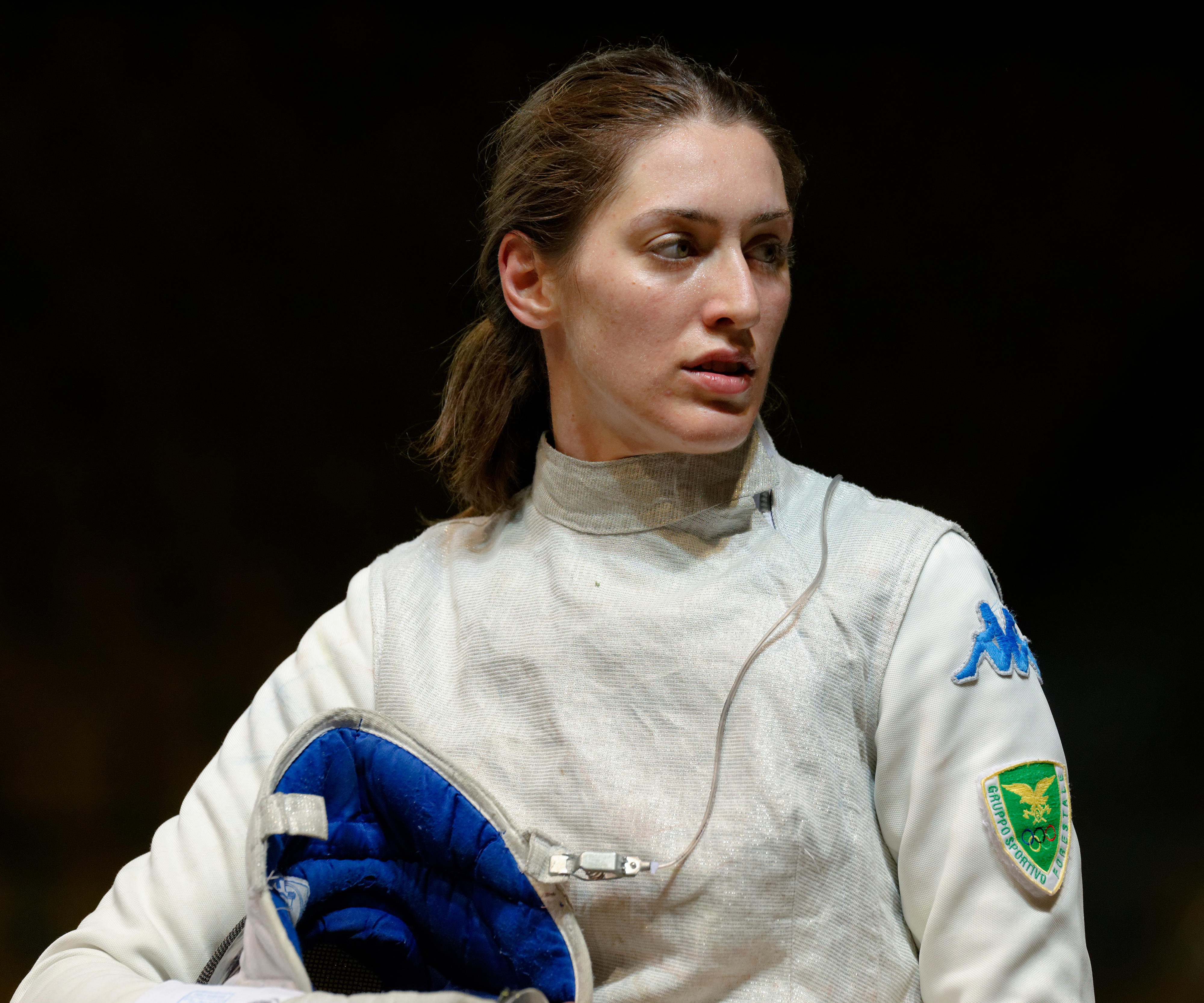 Martina Batini of Italy during their semi-final match against Poland in the women's team foil event at the European Fencing Championships at Rhénus Sport in Strasbourg on 14 June 2014.